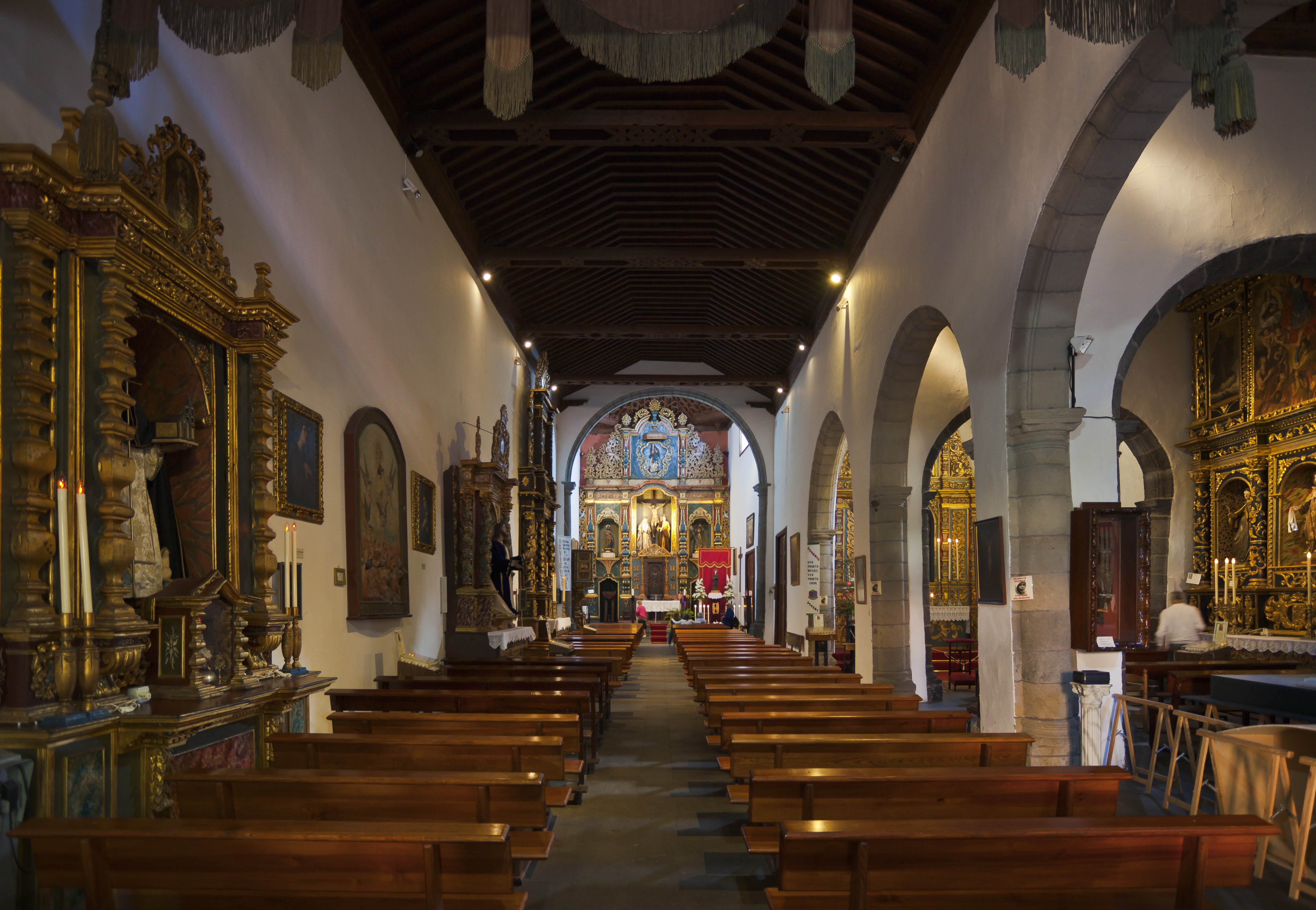 Hermitage of St. John Baptist, Puerto de la Cruz, Tenerife, Spain